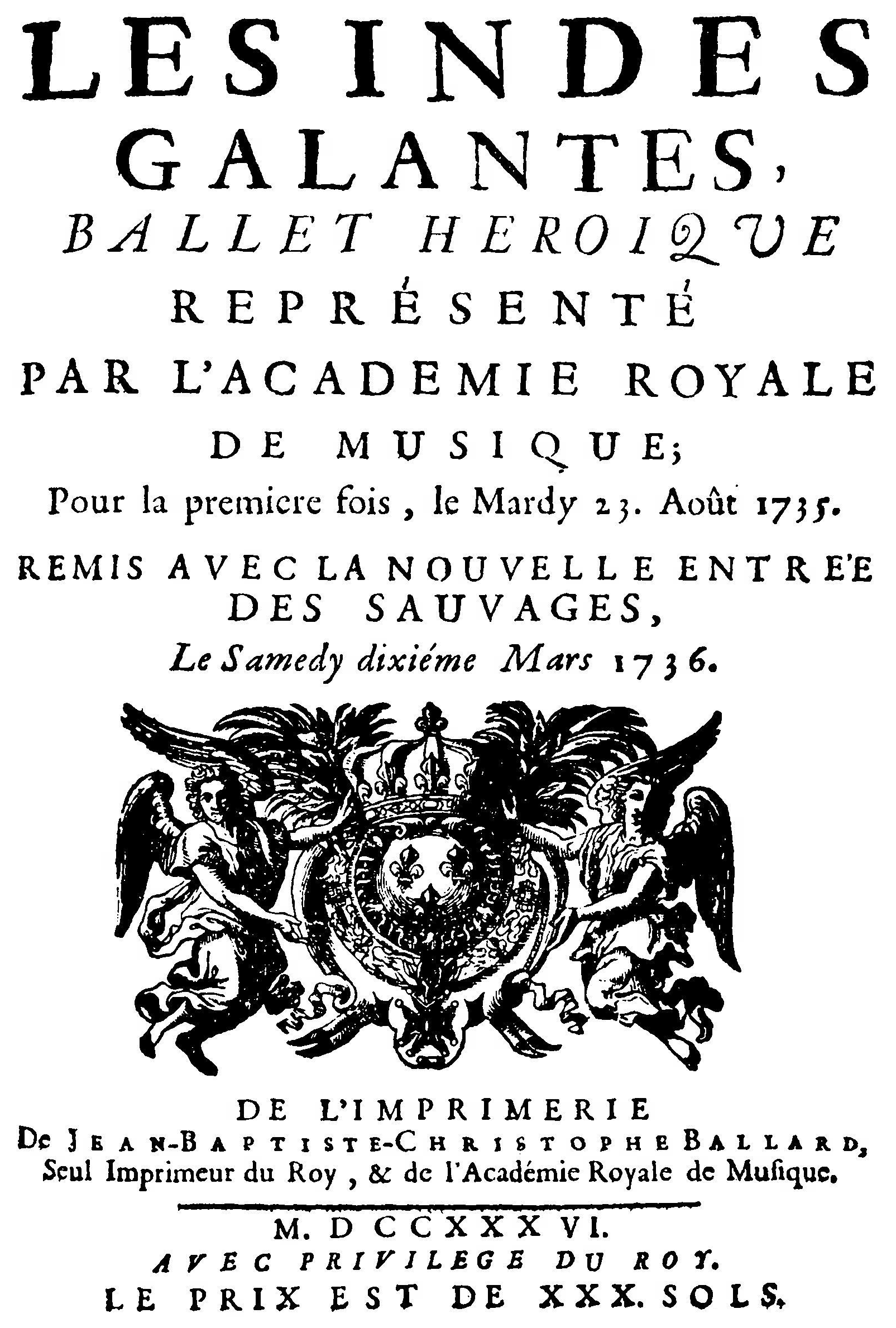 Title page of Les Indes galantes, ballet heroique représenté par l'Academie royale de Musique ; pour la premiere fois, le mardy 23. aoust 1735 . Remis avec la nouvelle entrée des Sauvages, le samedy dixiéme mars 1736 [Paris . ] De l'imprimerie de Jean-Baptiste-Christophe Ballard . M.DCCXXXVI